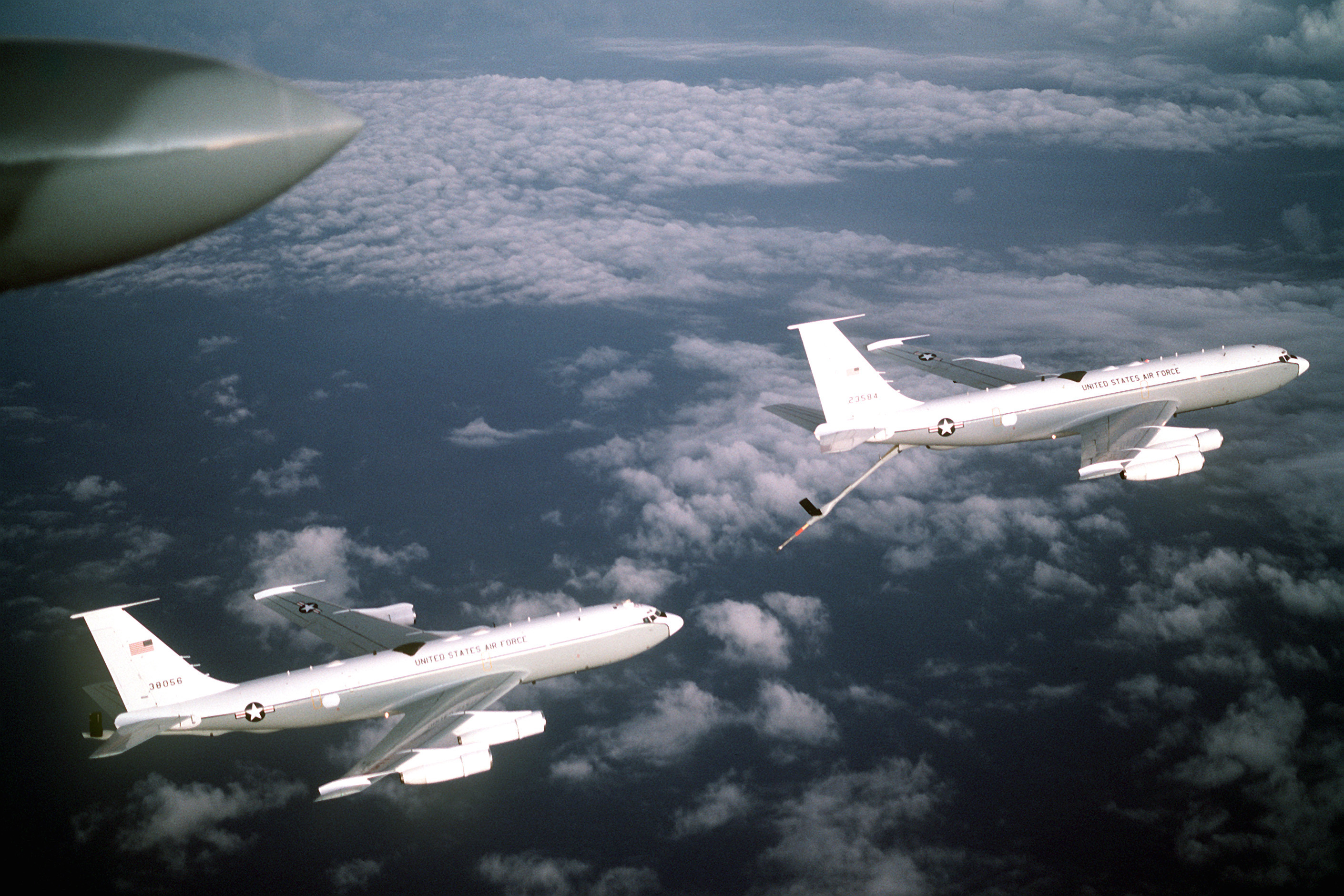 Boeing EC-135J 63-8056 and 62-3584 refueling. Original caption: An EC-135 Stratolifter aircraft refuels a second Stratolifter assuming the position of Looking Glass, the code name for the backup command and control post of Strategic Air Command (SAC). In the event that SAC's underground command center was destroyed by enemy attack, the crew of the flying command center would assume all functions from the air. Three Looking Glass sorties are flown daily by the 2nd Airborne Command and Control Squadron (ACCS) and the 4th ACCS.